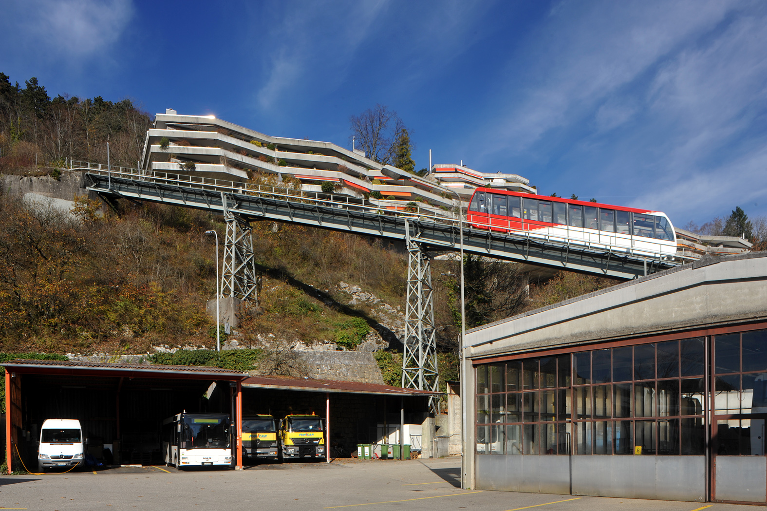 Bridge of the Biel-Magglingen-Bahn right above the lower station in Biel; Berne, Switzerland.